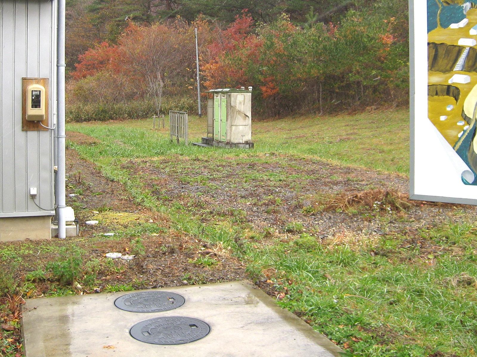 Photograph of Oya Gold Mine Collection Warehouse ruins, is ruins of museum in Kesennuma City, Miyagi Prefecture.